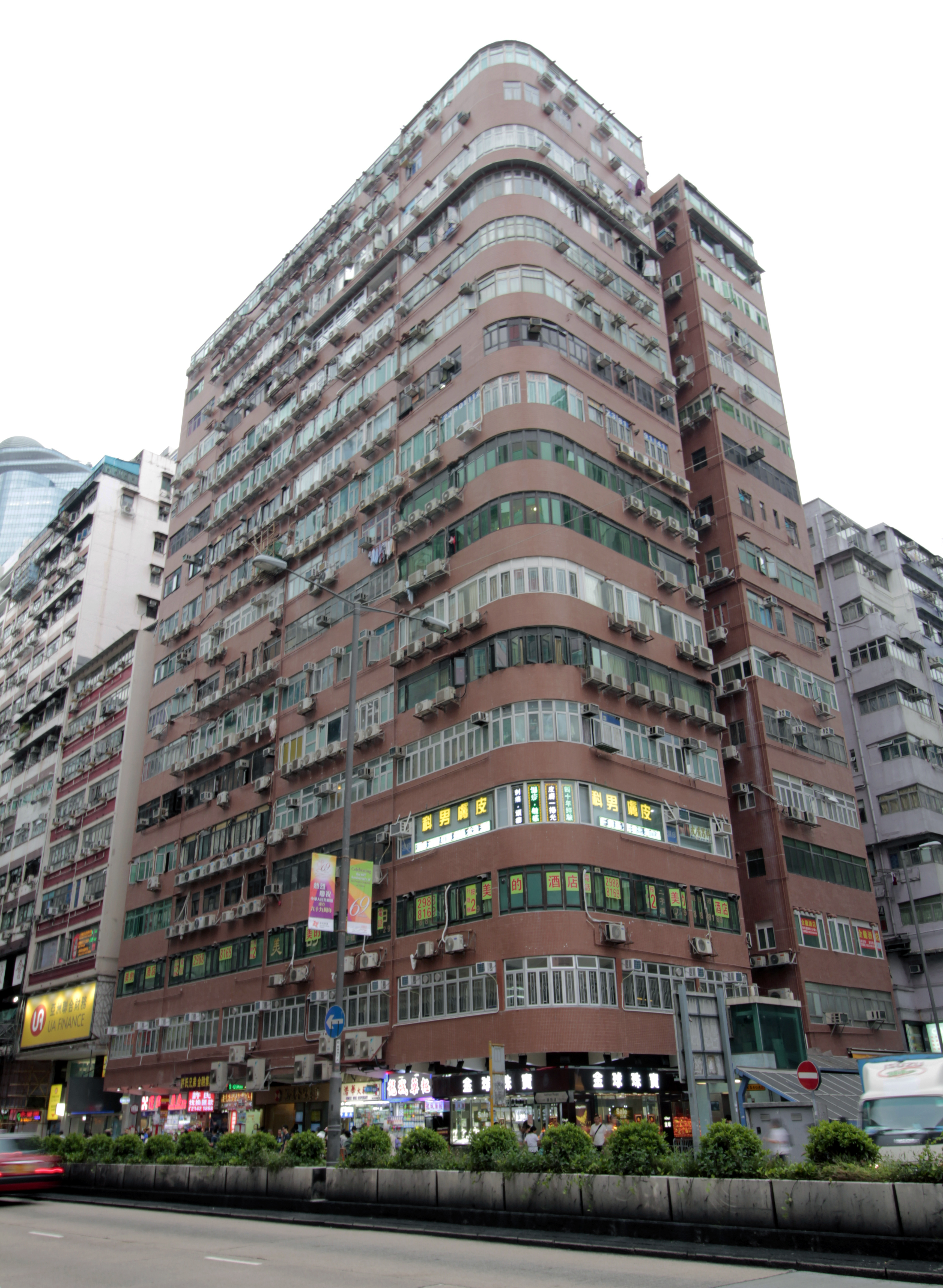 Kingland Apartments is a composite building built in 1958 with 17 floors. It is located at the intersection of Nathan Road and Bute Street in Mong Kok.